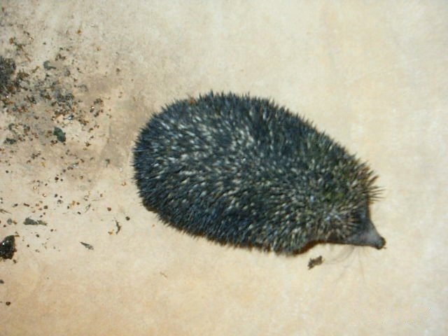 This photo of a Hedgehog was taken in Jaisalmer district, Rajasthan on 18 Apr 06. The hedgehog was found wandering in the desert at 2200hrs. He was kept in a pot till morning, photos taken and released unharmed deep in the desert away from habitation.. Identification is required - E collaris or micropus? There are total three photos of the same hedgehog in Wikimedia: File:AB001 Hedgehog from Rajasthan.jpg File:AB002 Hedgehog from Rajasthan.jpg File:AB003 Hedgehog from Rajasthan.jpg